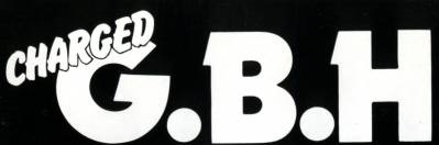 GBH logo